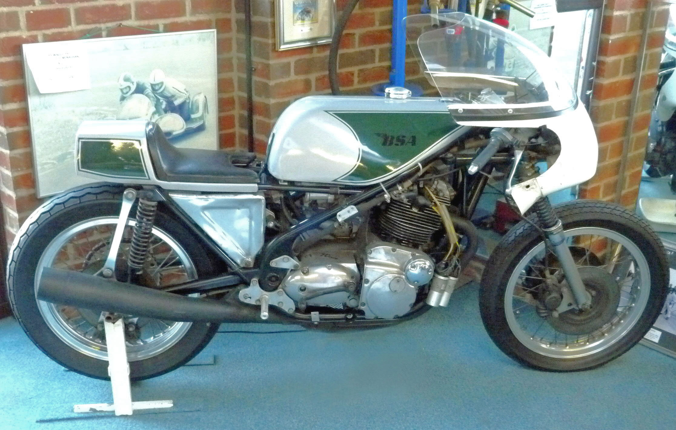 Rob North framed BSA Rocket 3 short-circuit racer at the Sammy Miller Museum